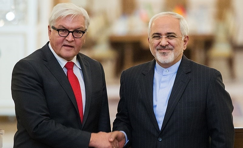 Iranian and German foreign ministers, Mohammad Javad Zarif and Frank-Walter Steinmeier meeting in Tehran